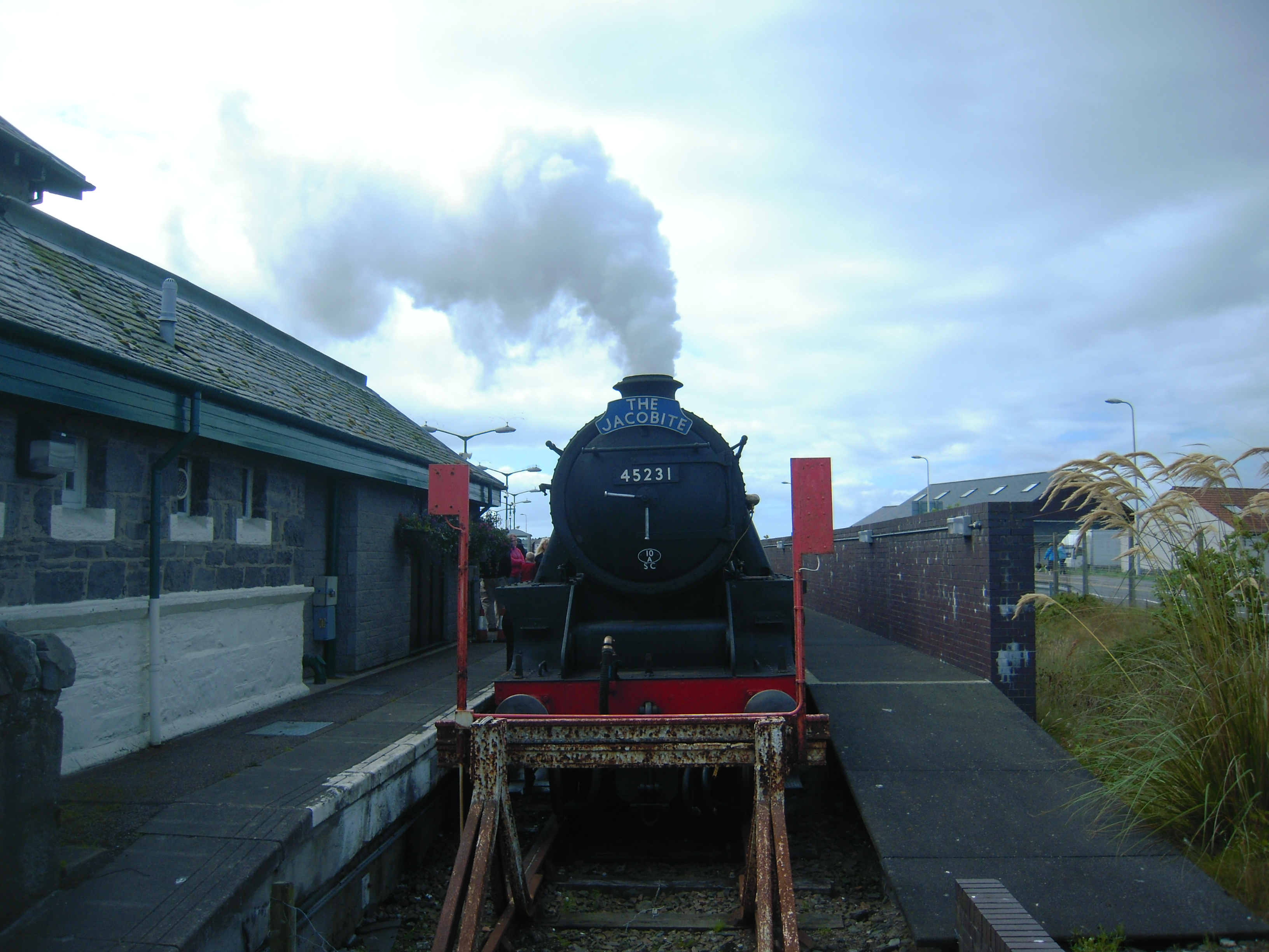 The Jacobite.